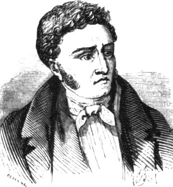 Bernard-Charles Bastide, a suspect in the murder of Antoine Bernardin Fualdès (1761–1817)